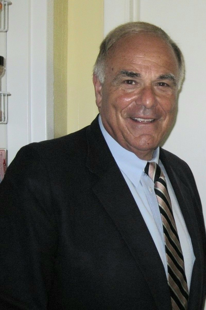 Ed Rendell in 2012 on the campaign trail